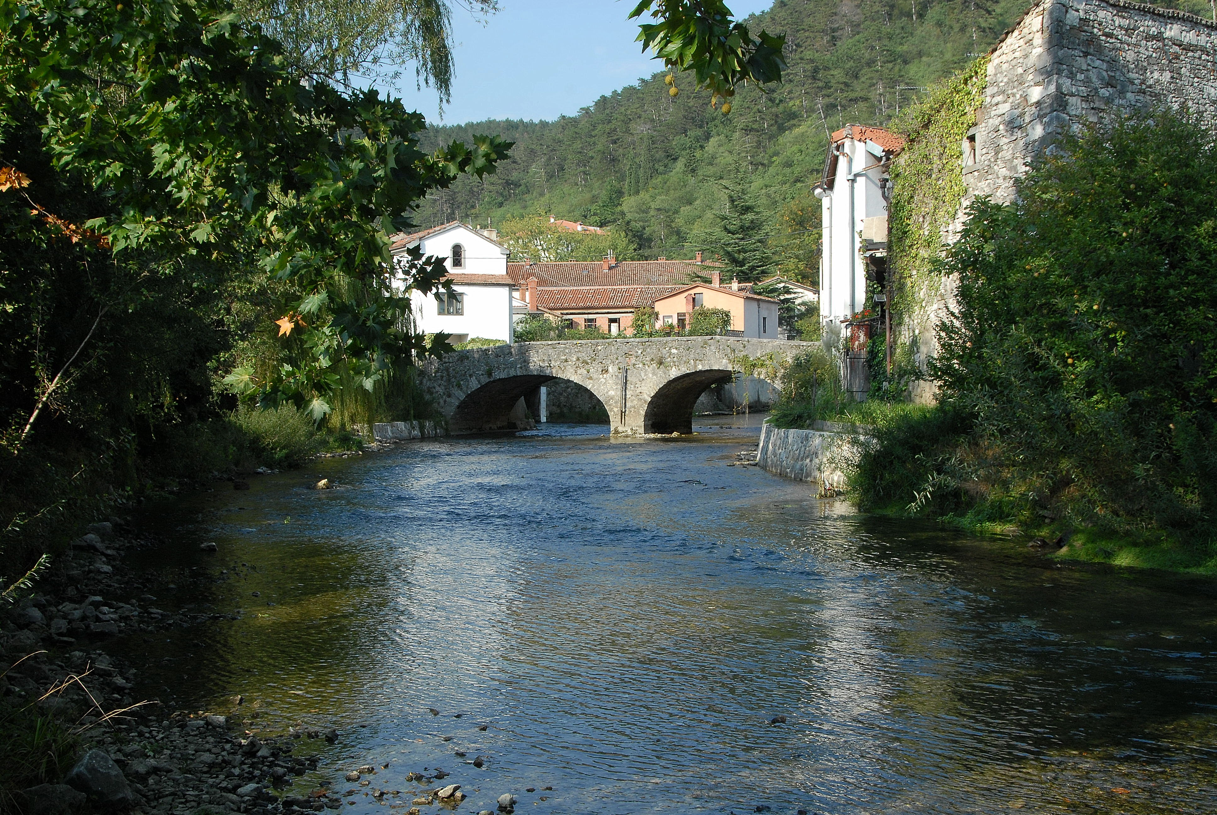 Tabor bridge across the river Vipava in Vipava, Goriška, Slovenia